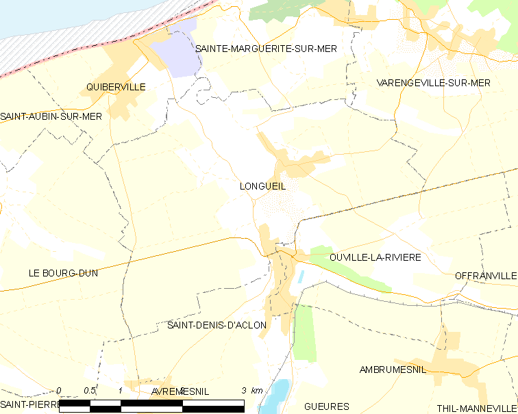 Map of French municipality Longueil